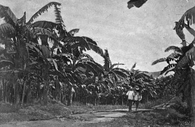 Golden Vale banana plantation of the Boston Fruit Co.,_ca.1894,_Port Antonio,_Jamaica